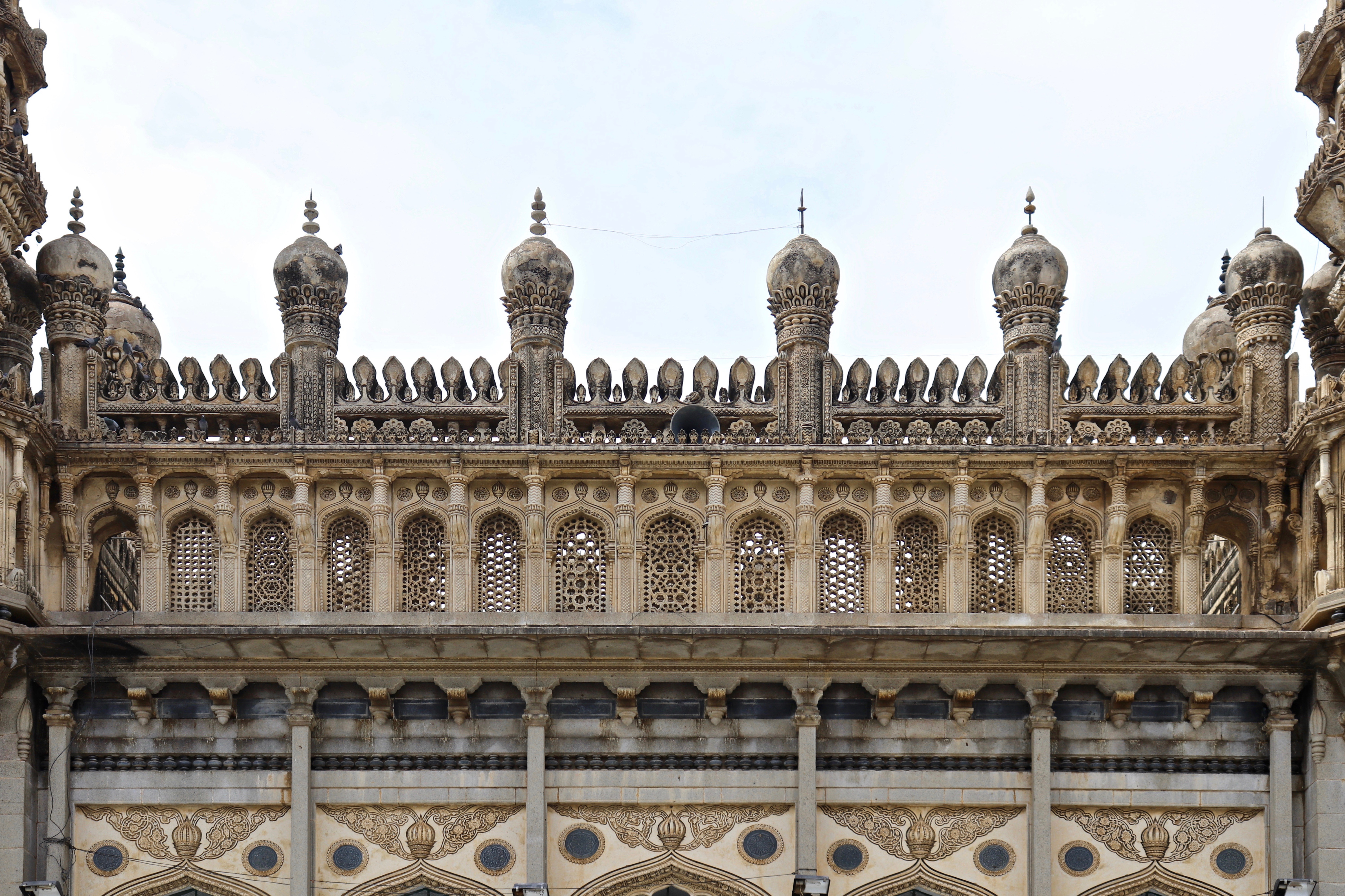 Arches and Jalis above the Entrance of Toli Masjid, Hyderabad